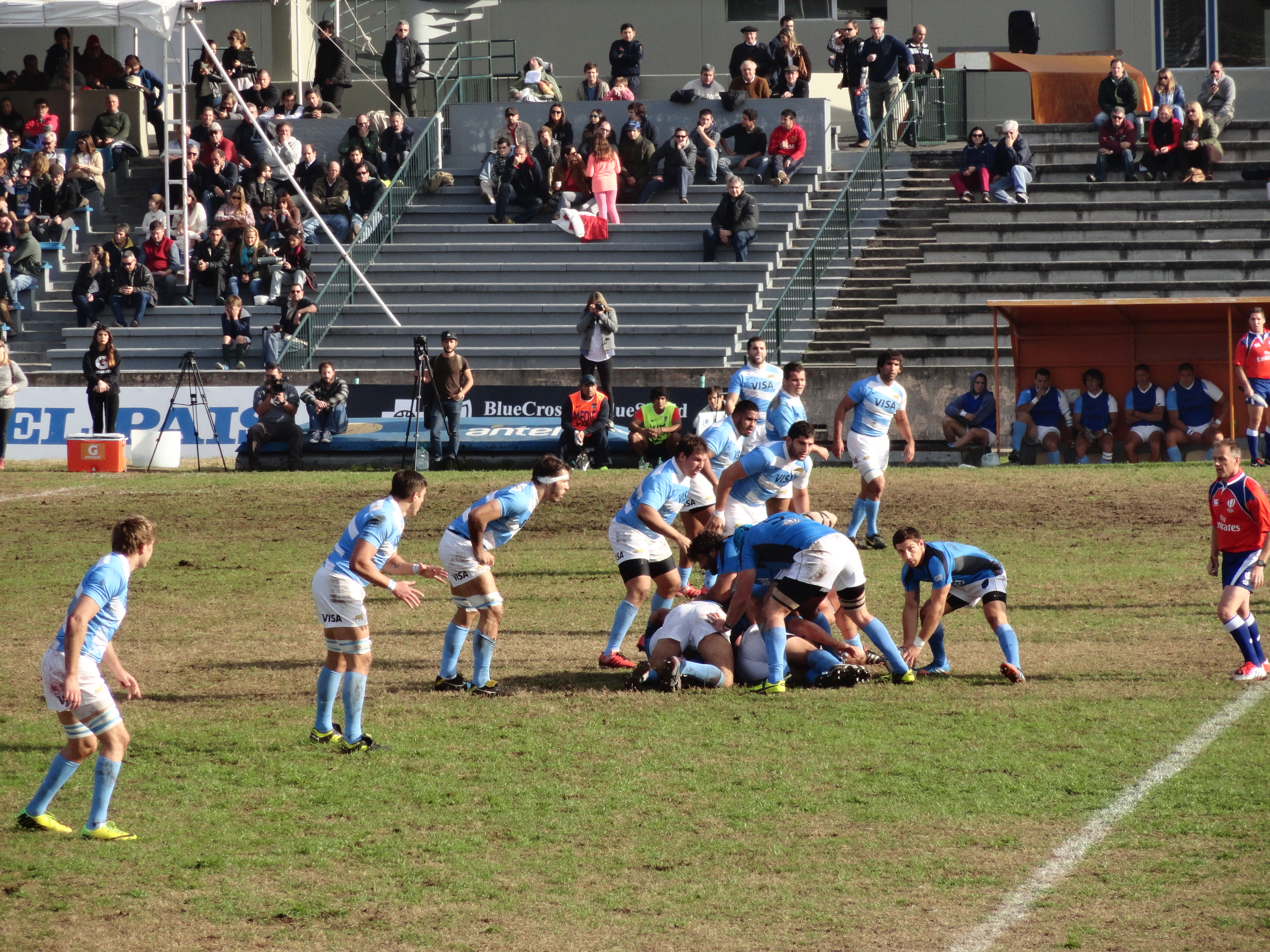 Rugby union match between Uruguay (Los Teros) vs Argentina XV, as a warmup for the 2015 Rugby World Cup.